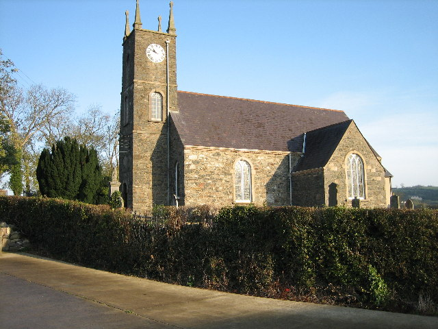 Parish Church of St. John the Evangelist Dromara. Built on a religious site with taxation records from 1306. The chancel, transepts and a new pitch pine roof were added in 1896, the Church was rededicated on 15 February of that year.